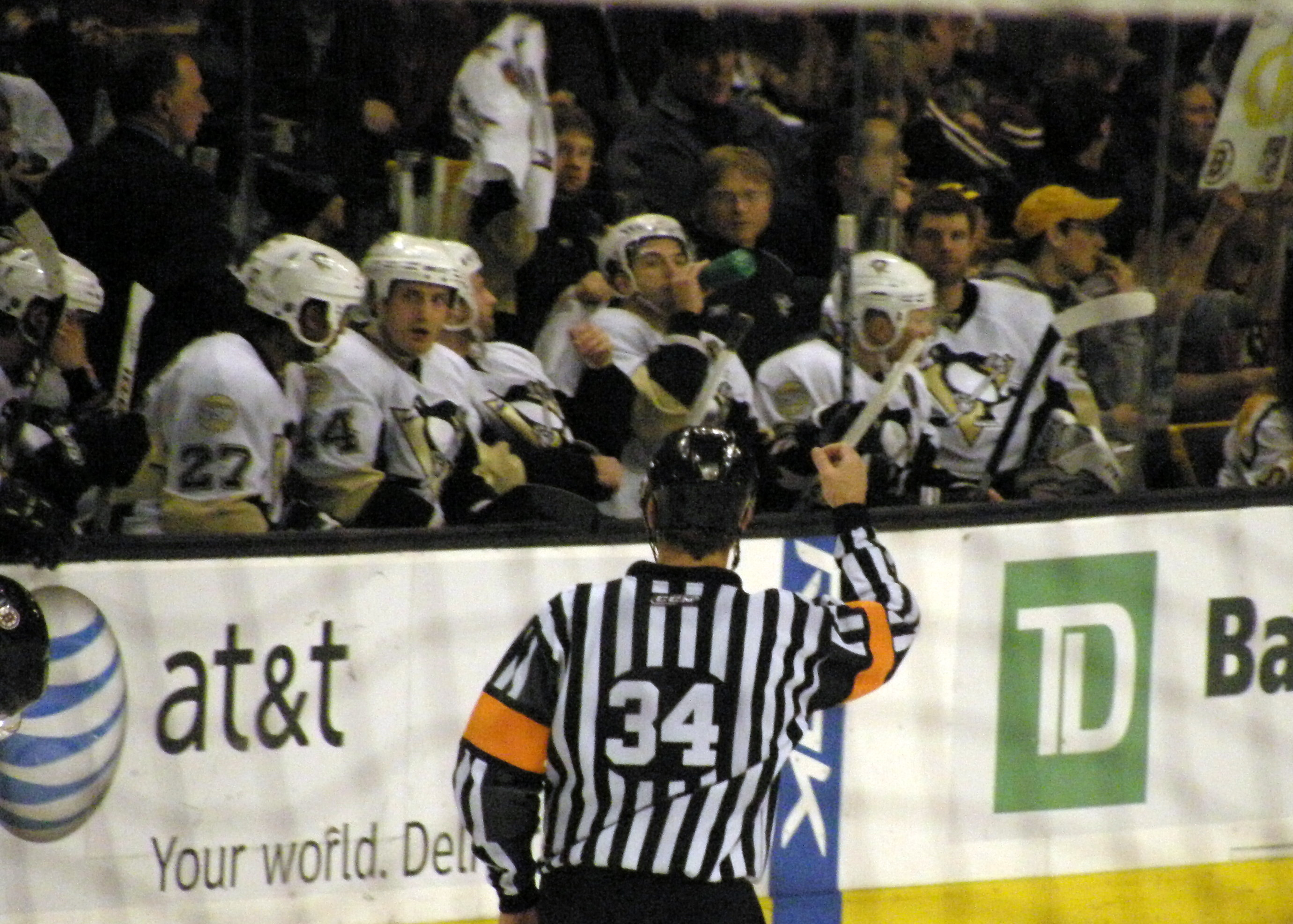 Referee #34 Brad Meier in front of the Penguins bench